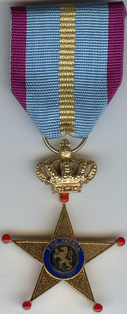 Foreign Service Honour Cross 1st class (Belgium)